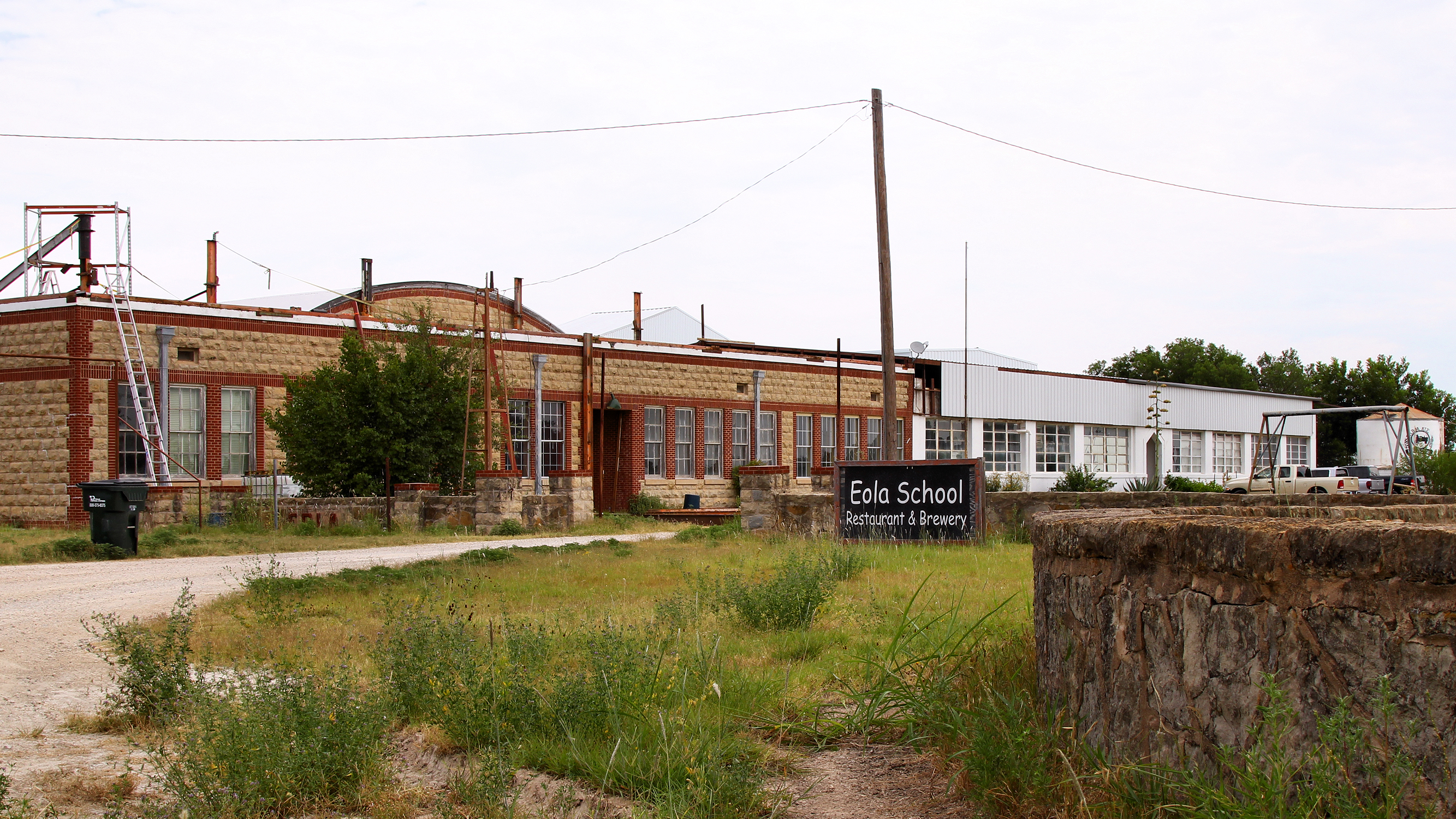 The former Eola School in Eola, Texas, United States has been re-purposed as a restaurant and brewery.